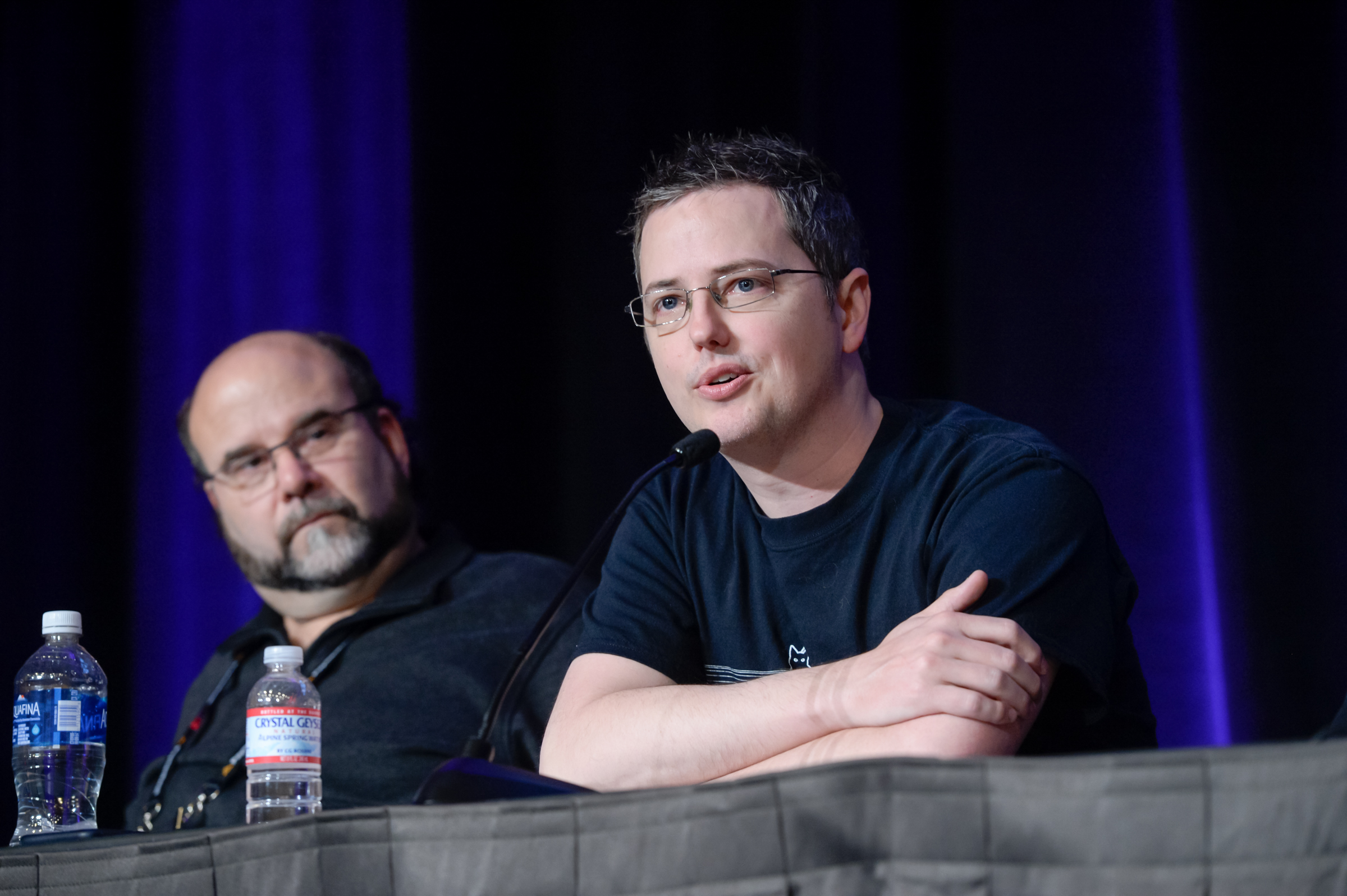 Image of Jason Graves attending GDC 2016